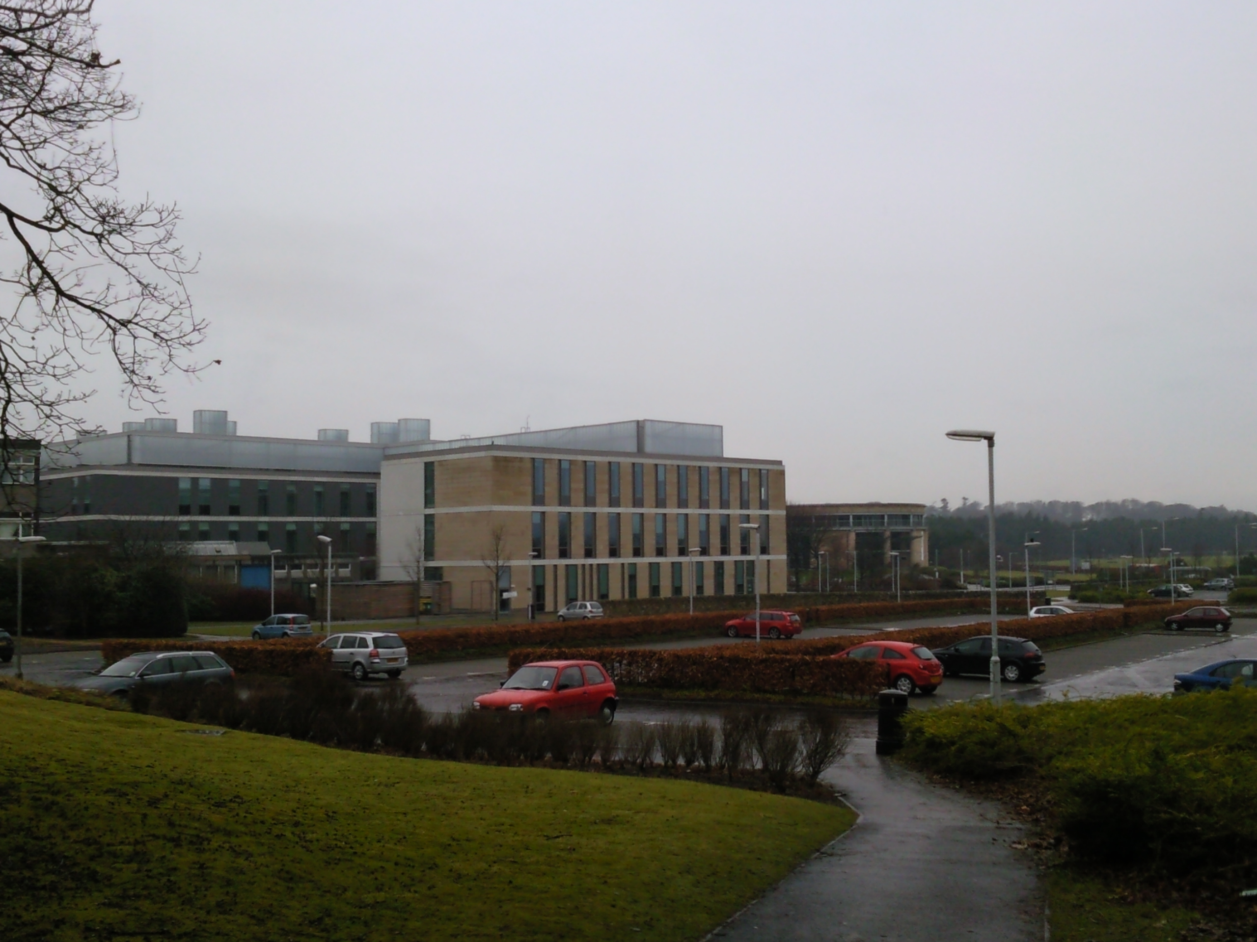 New medicine and biological sciences building, university of st andrews, fife, ky16. taken on 04/02/10